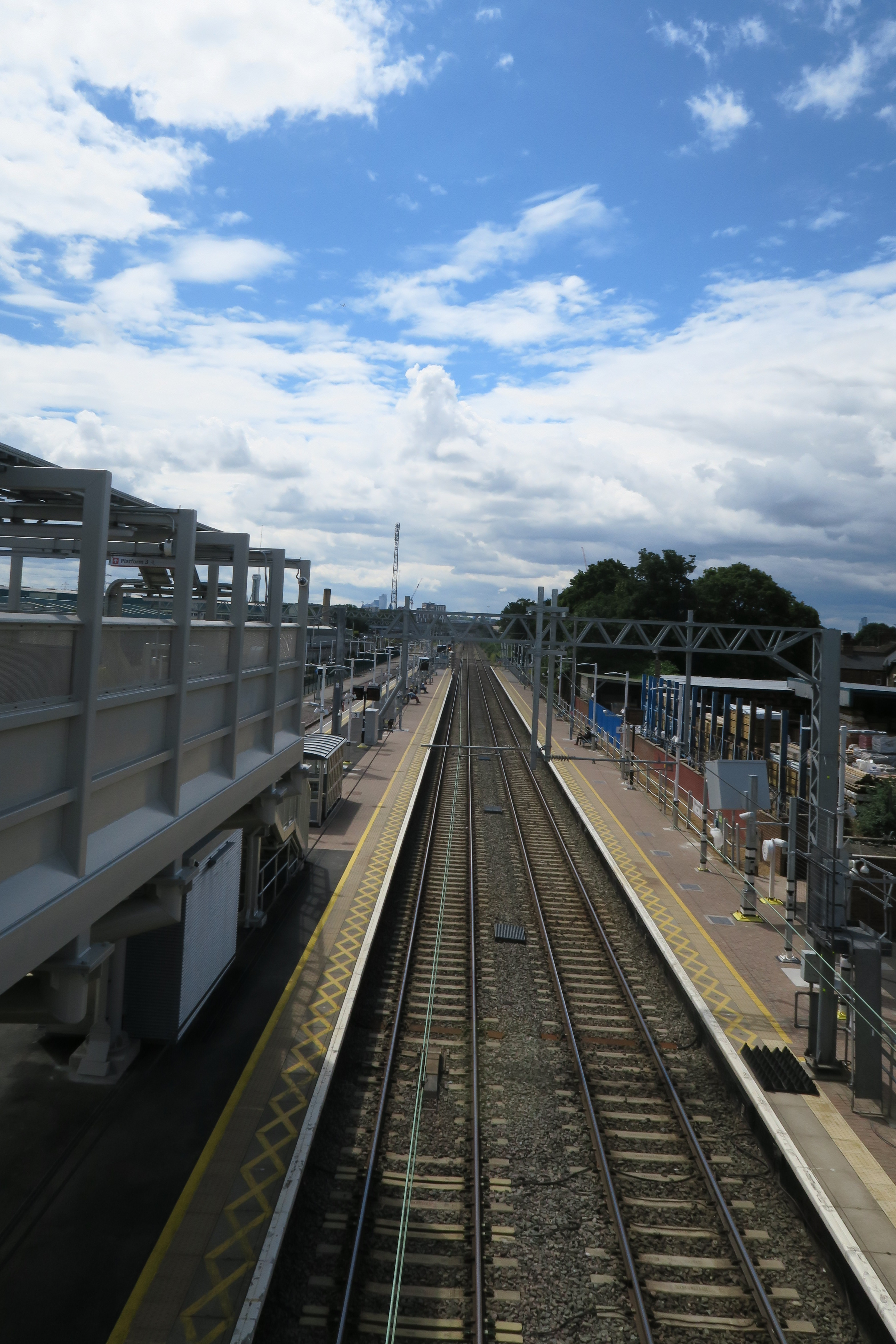 Northumberland Park railway station in June 2019, view from walkway